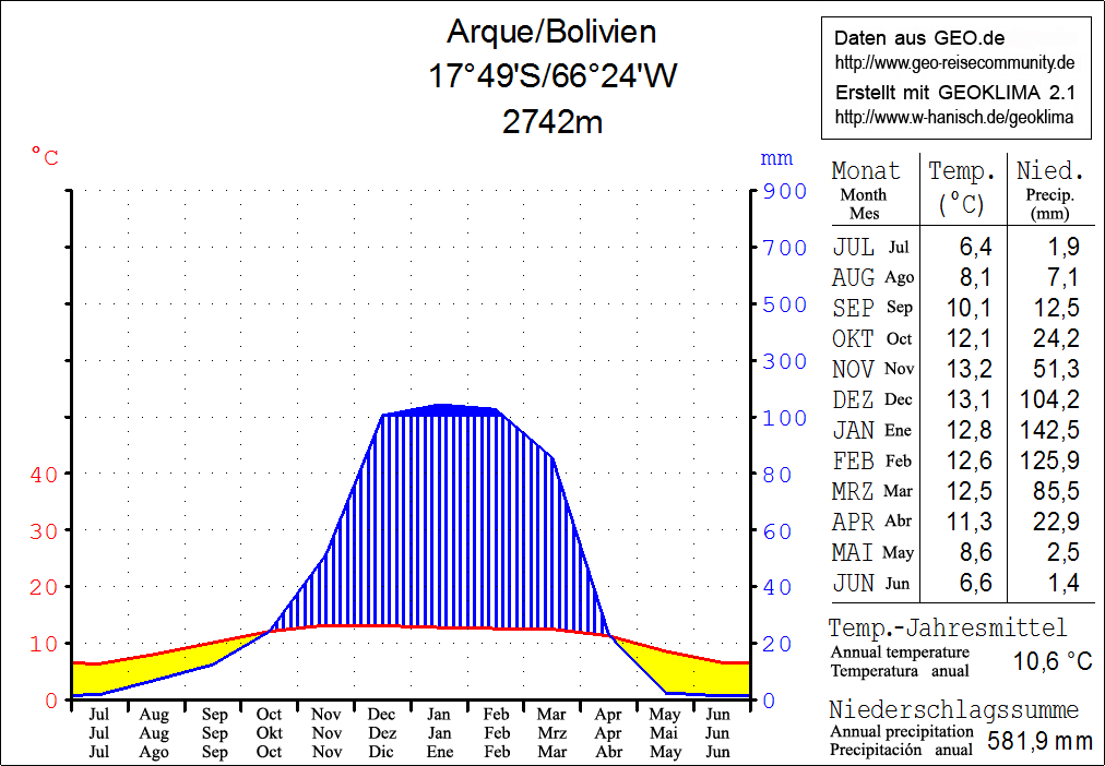 Climate chart in the Walter and Lieth format, metric, °Celsius und millimeters, made with Geoklima 2.1